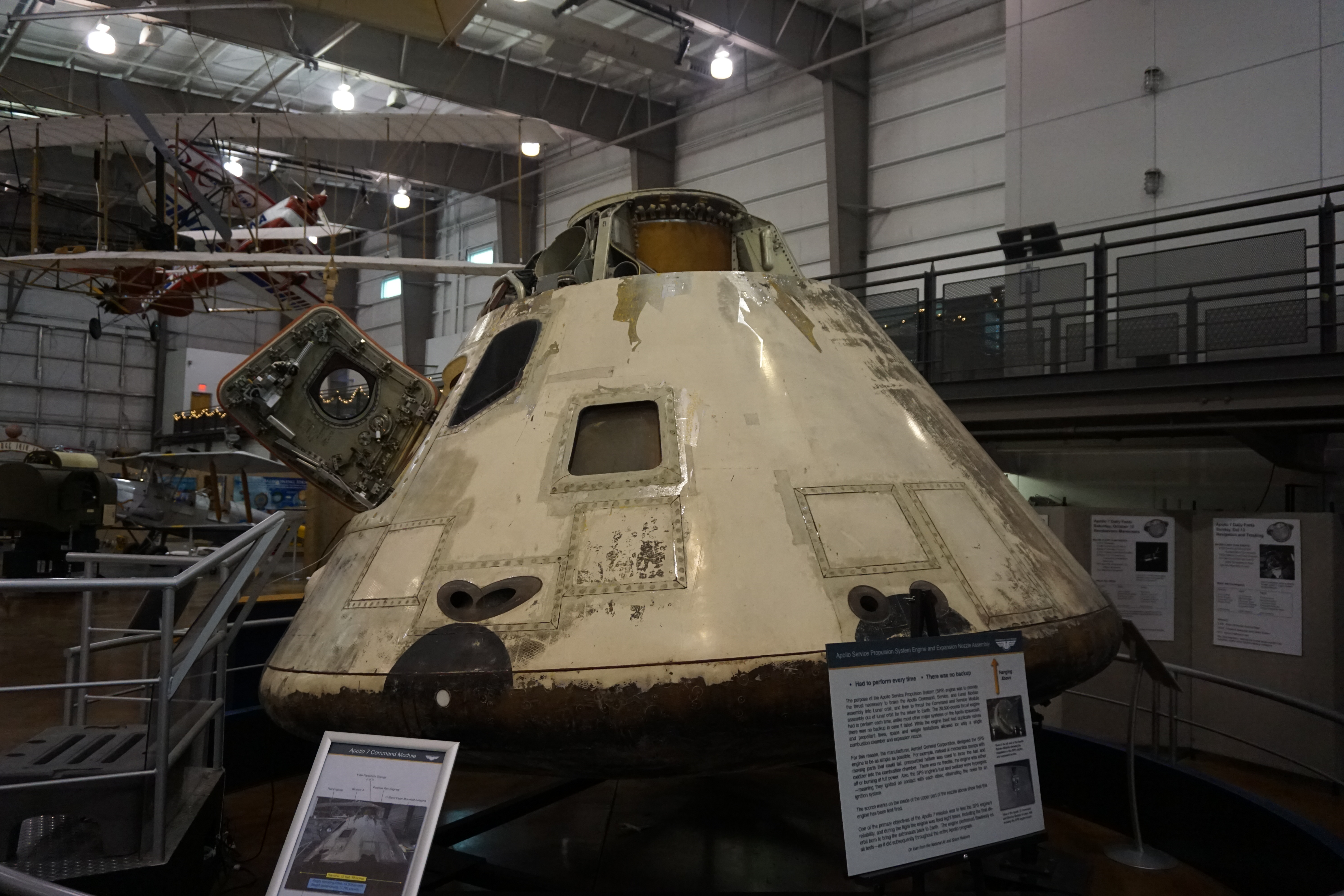 The Apollo 7 Command Module on display at the Frontiers of Flight Museum at Dallas Love Field in Dallas, Texas (United States).